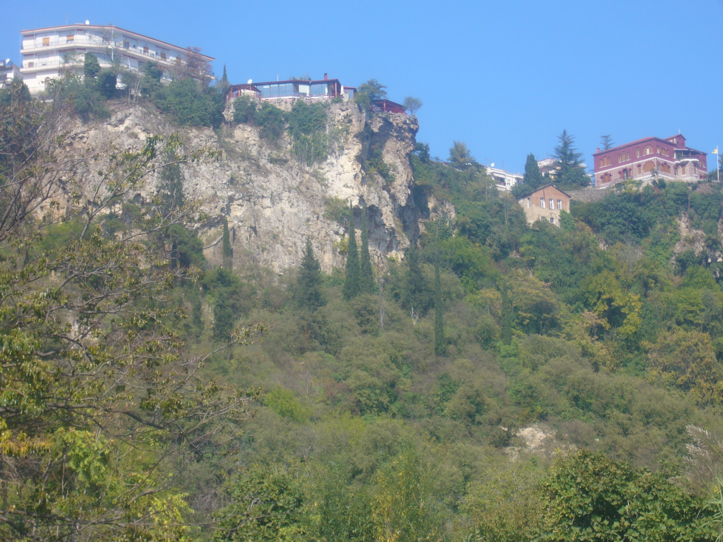 Edessa, Pella prefecture, Greece.